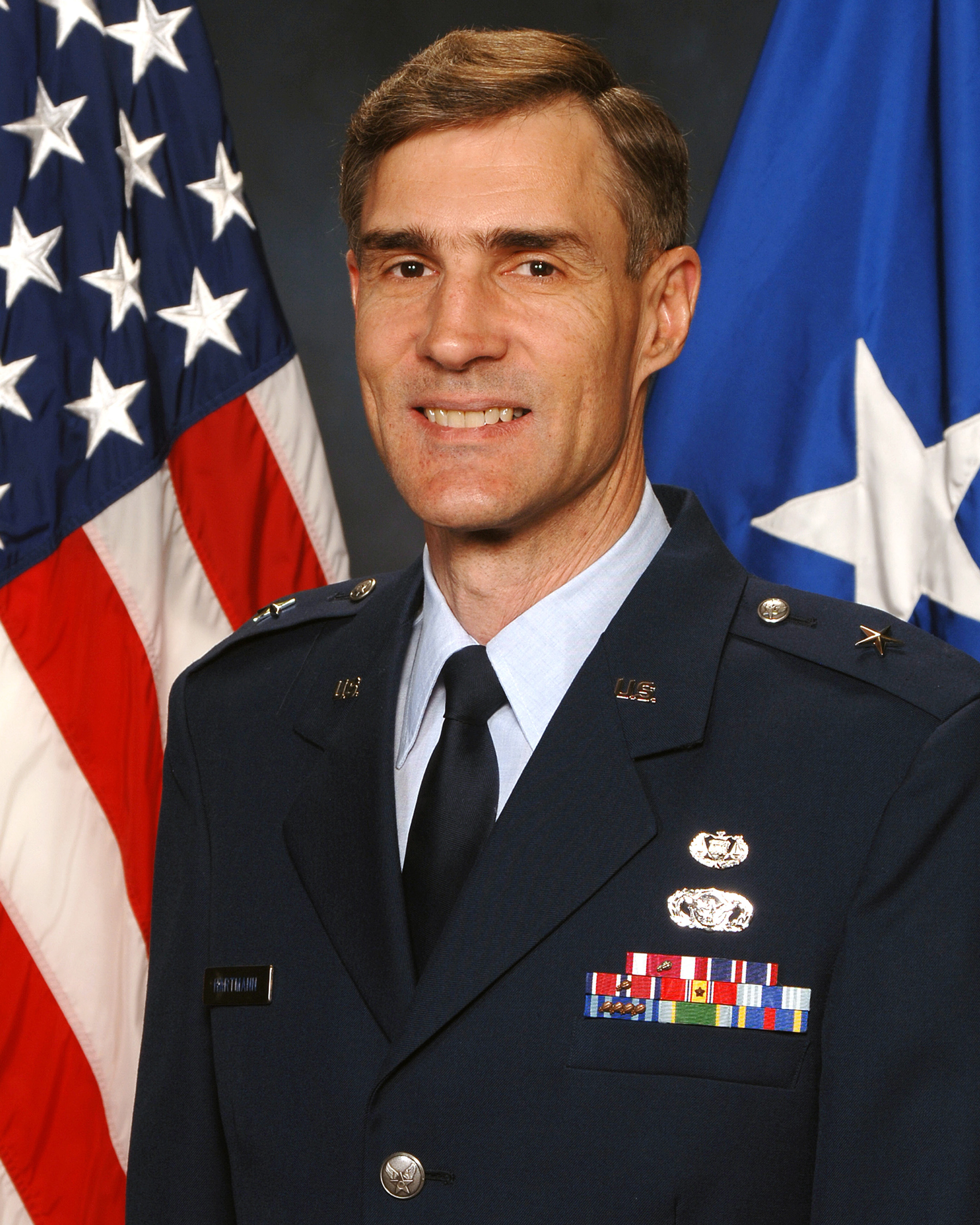 Brigadier General, Thomas W. Hartmann, USAFR, Legal Adviser to the Convening Authority in the Department of Defense Office of Military Commissions